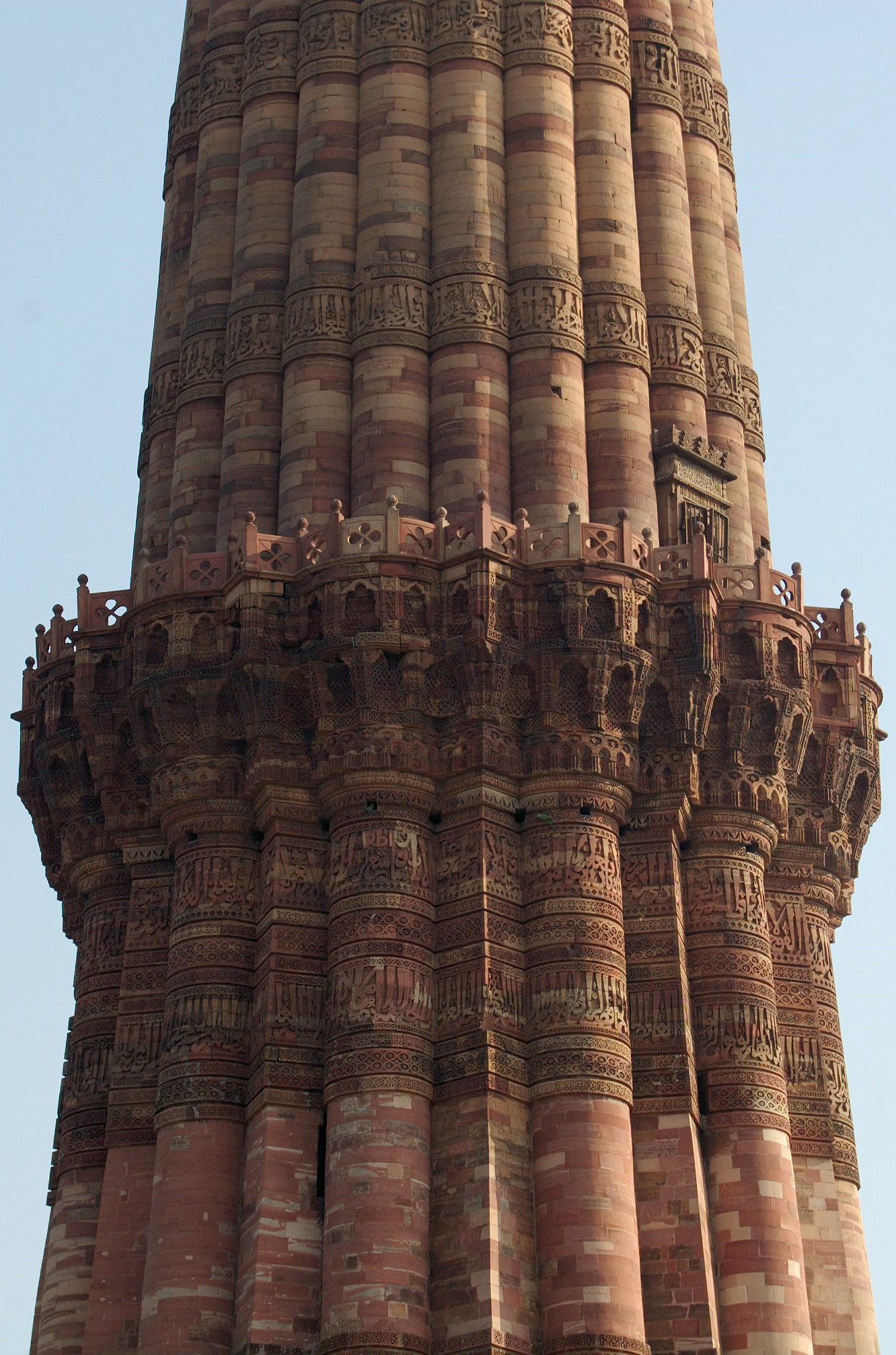 Bands of inscription in Arabic, probably Thuluth script, distinguished by strokes that thicken on the top. Qutb Minar.